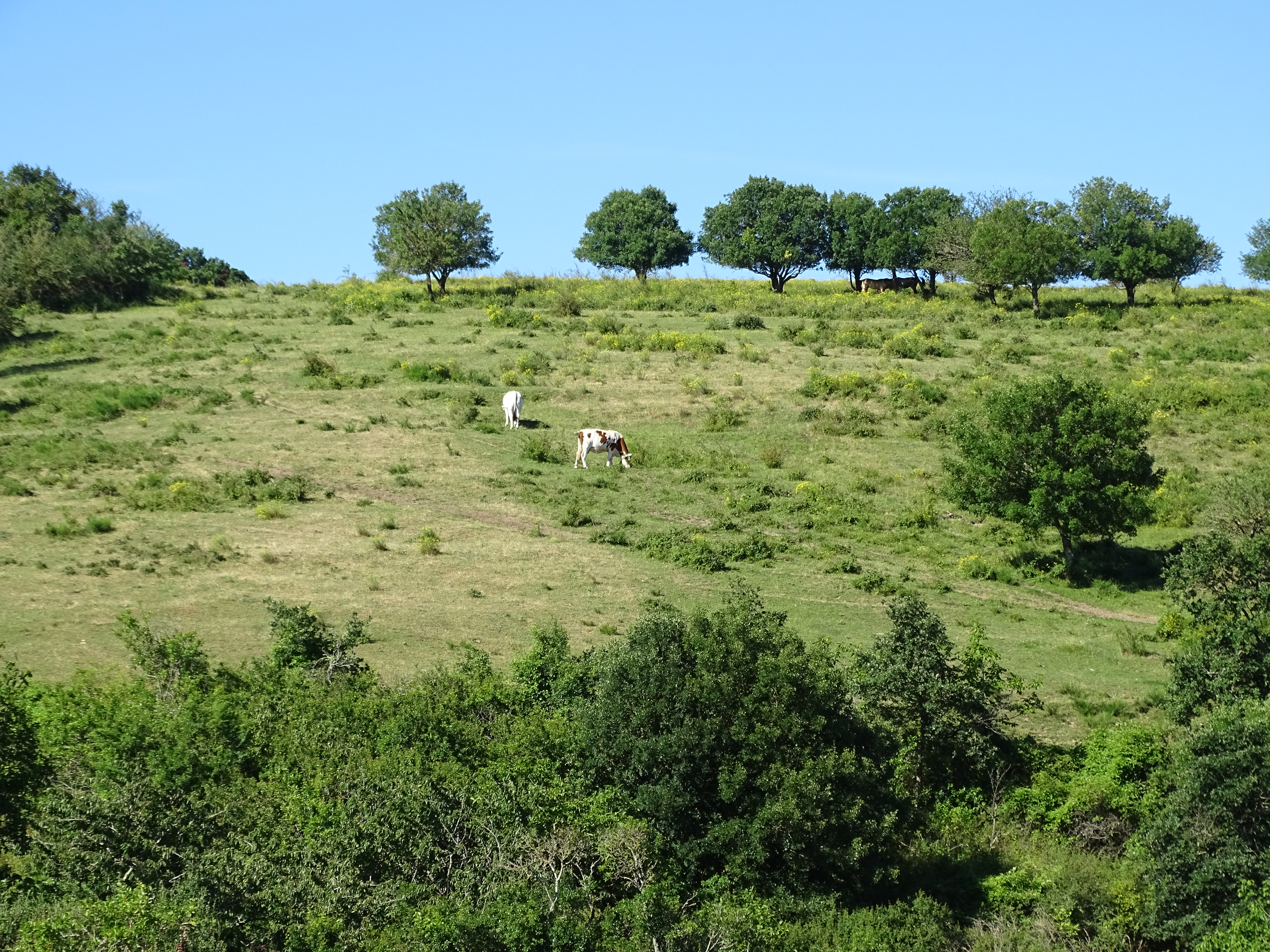 Cows in Salza, Aude, France